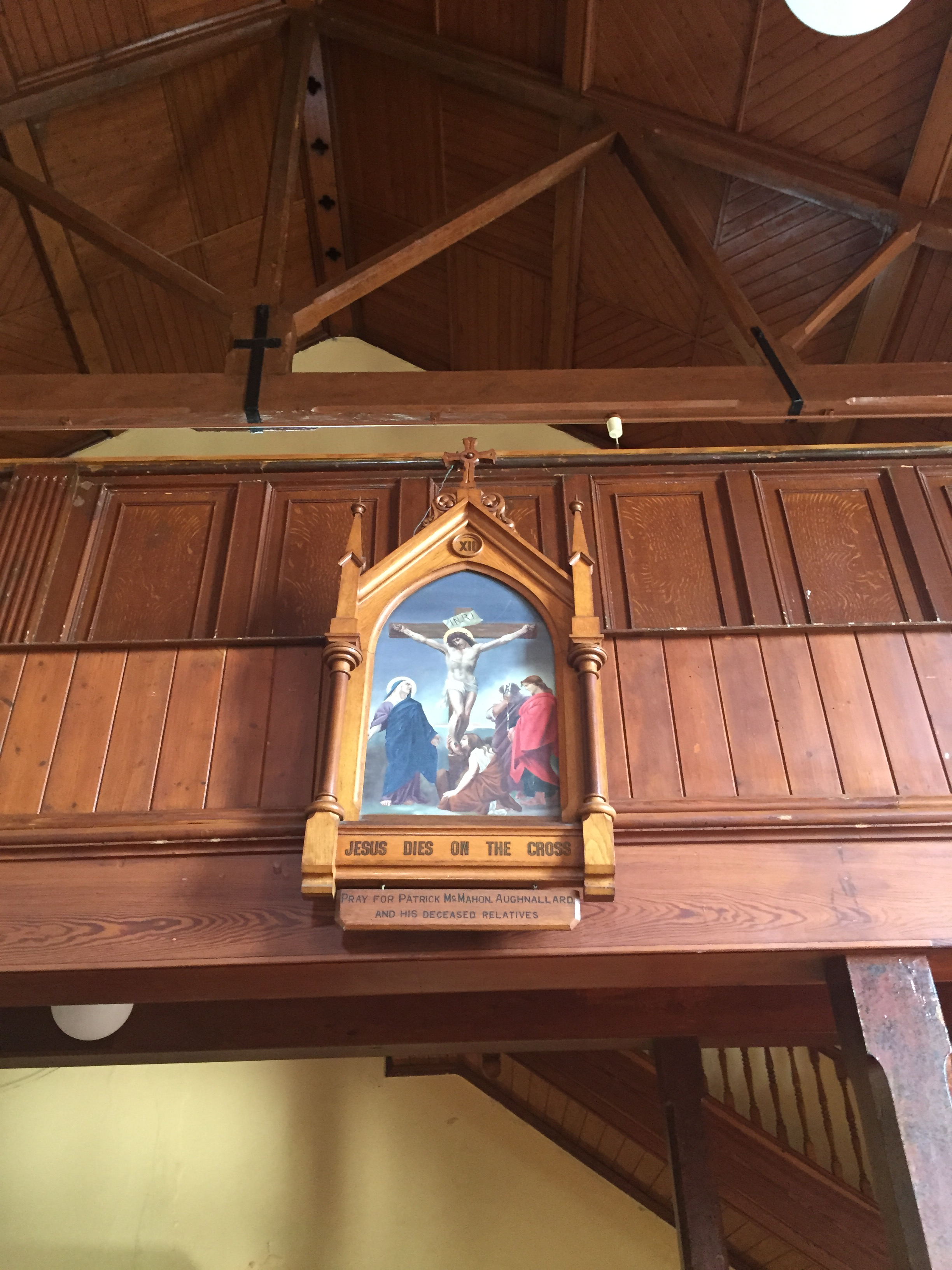 Gallery & ceiling, Ss. Peter & Paul church